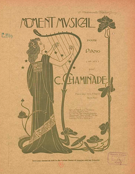 Cover of Musical Sheet : Moment musical : pour piano : op. 103 by Cécile Chaminade (1857-1944), published in Paris by Enoch & Cie.